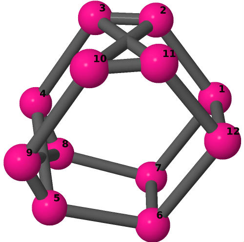 One of 85 simple cubic graphs with 12 vertices.